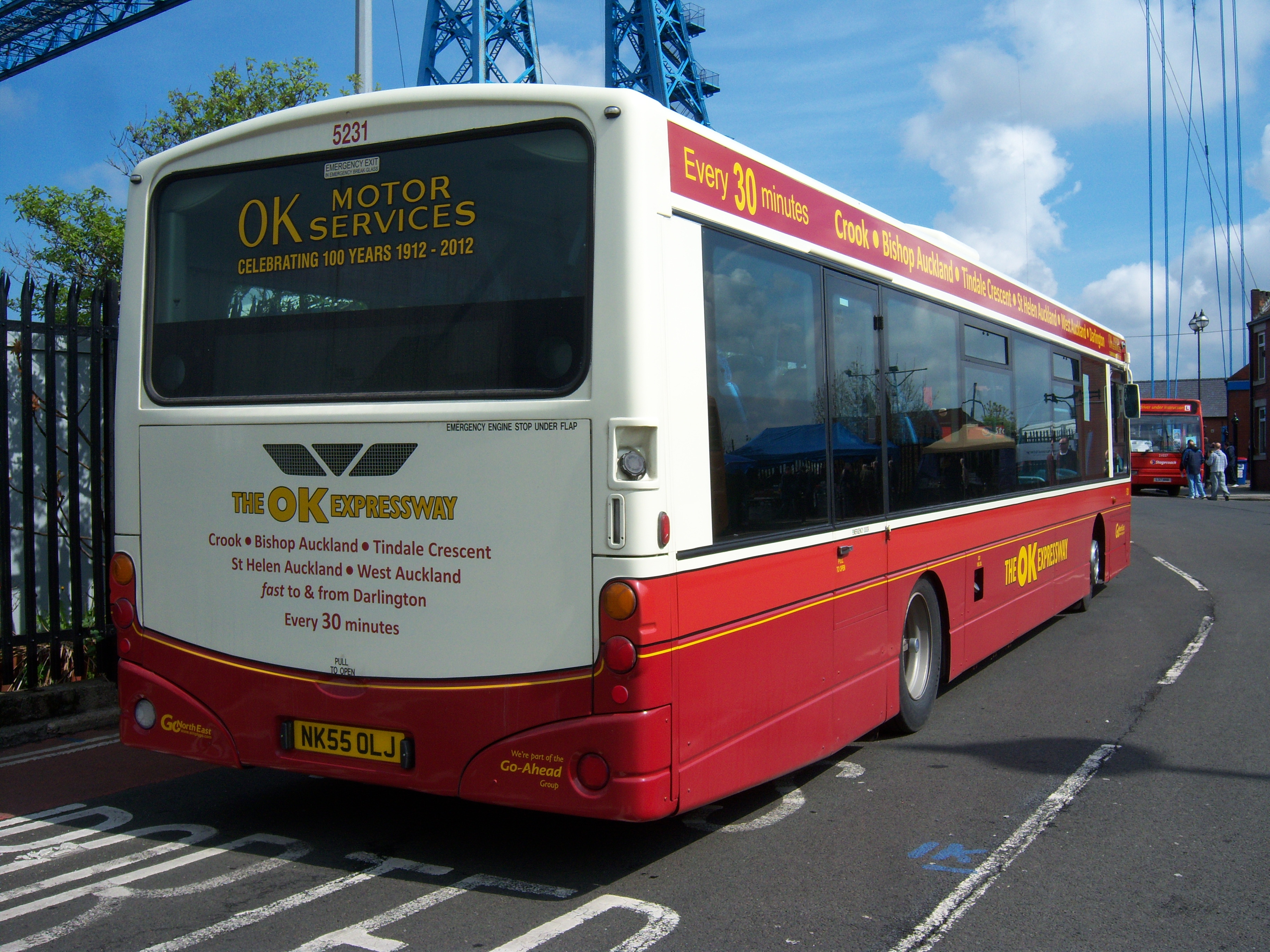 Go North East bus 5231 (reg. NK55 OLJ), a 2006 Scania L94UB, with Wrightbus Solar bodywork, pictured at the 2012 Teeside Running Day. It's parked in the Ferry Road staging area facing east (see the rally categories for further operational/location details). The OK Motor Services and The OK Expressway branding is a resurrection of the OK Motor Services identity by GNE for what would have been the operator's centenary year.